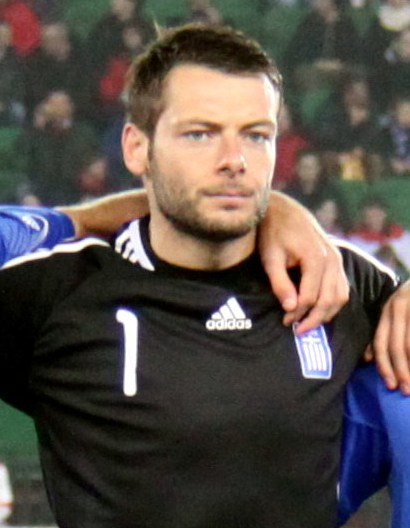 Greece national football team against the Austrian national football team (2:1)